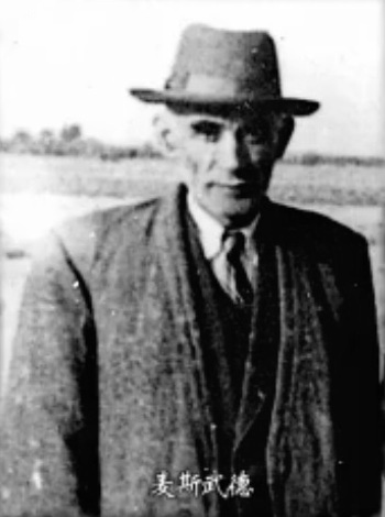 Masud Sabri